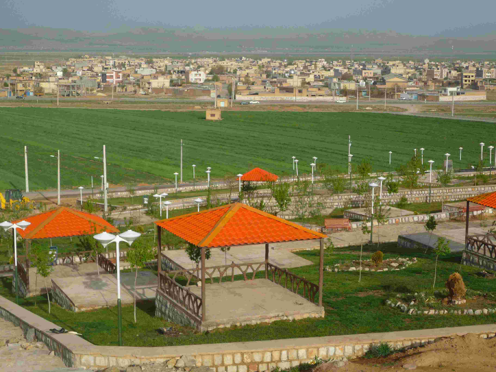 A view of Shahr-e-Kian from Ghezel Hesar Park